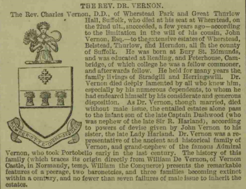 Explanation of the line of inheritance for Wherstead Park in 1863